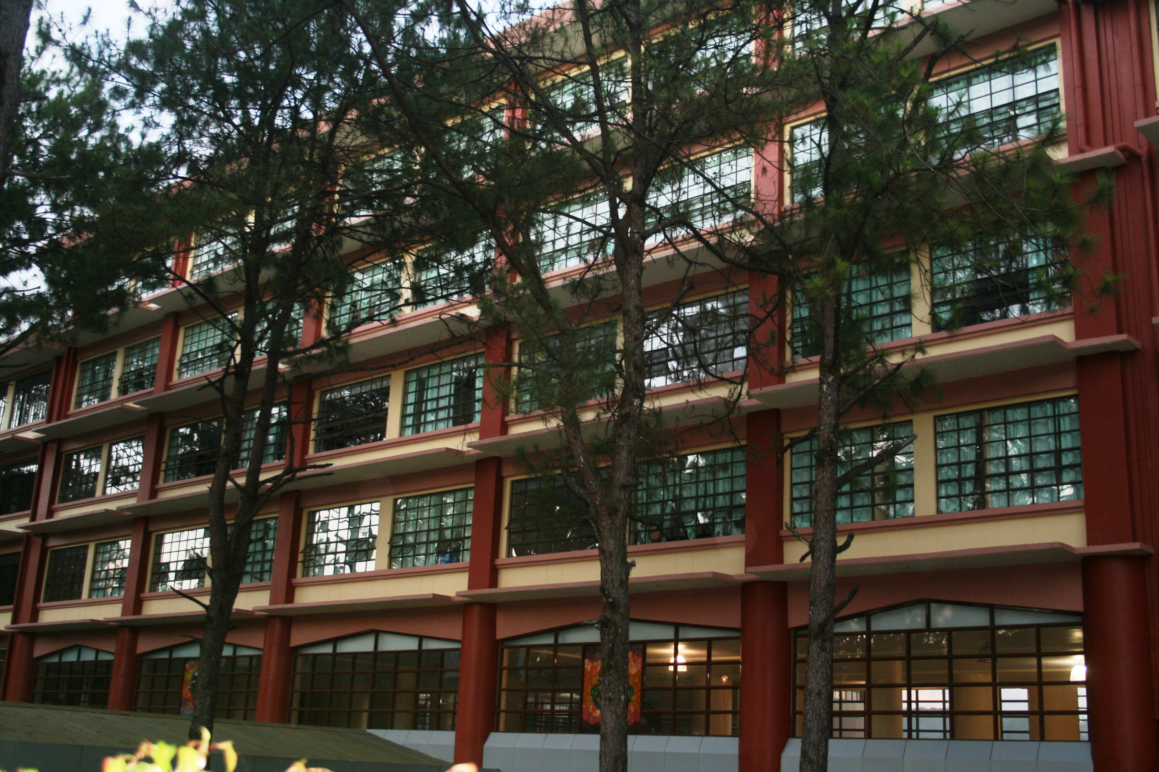 the north facade of the Devesse Building at Saint Louis University - Maryheights Campus